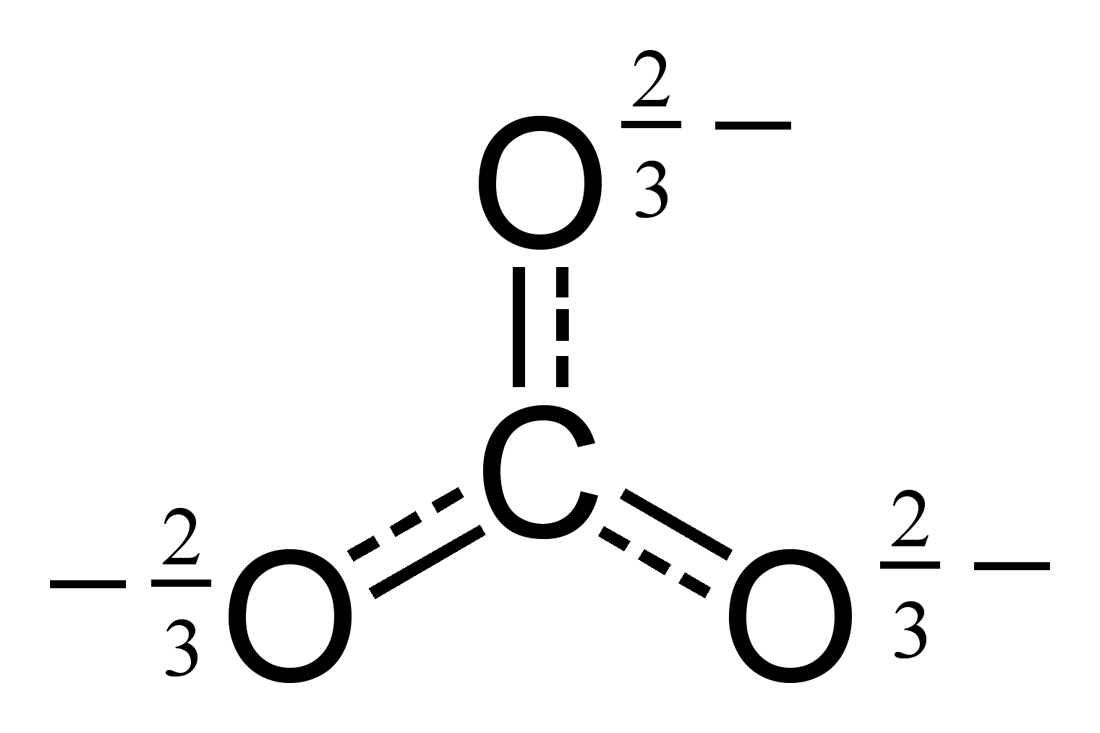 Delocalised structural formula of the carbonate ion, CO32−, showing the double negative charge on the ion shared equally by the three oxygens, resulting in a charge of −⅔ on each oxygen. The C-O bonds have a bond order of 1⅓ each.